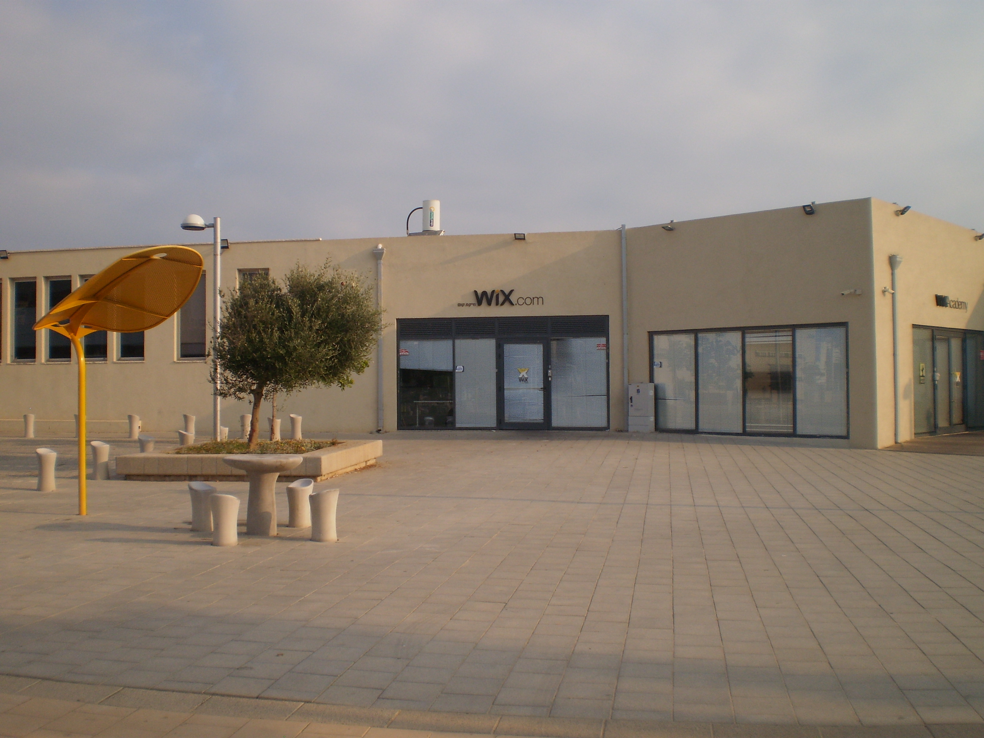 's headquarters in Tel Aviv Port